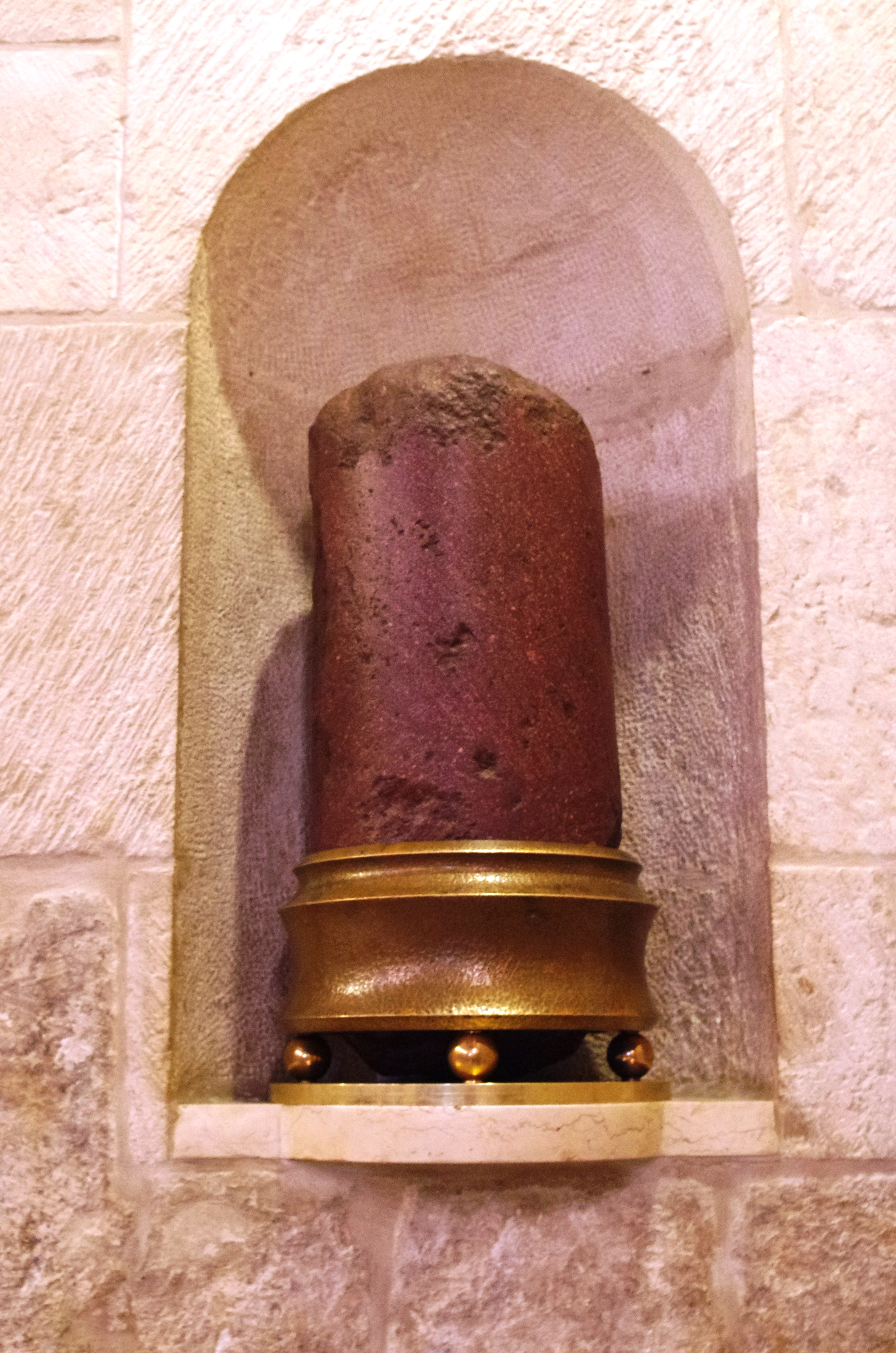 The Column of Flagellation at the Chapel of the Apparition of Jesus to his Mother, Church of the Holy Sepulchre; Jerusalem